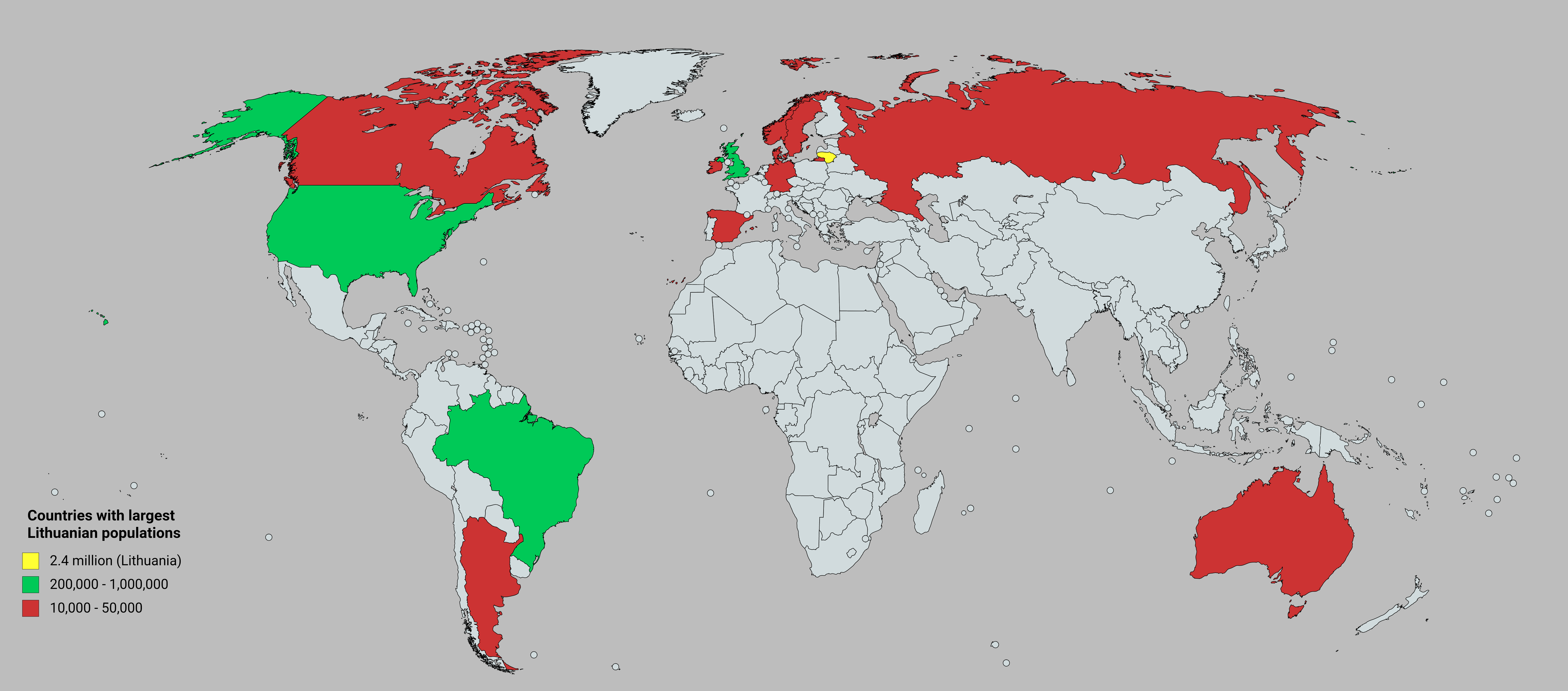 Countries with largest Lithuanian populations